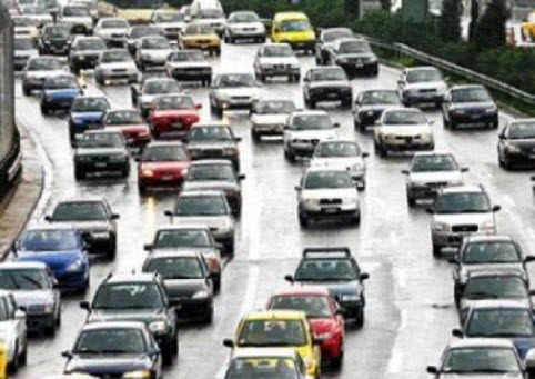 njnjbj